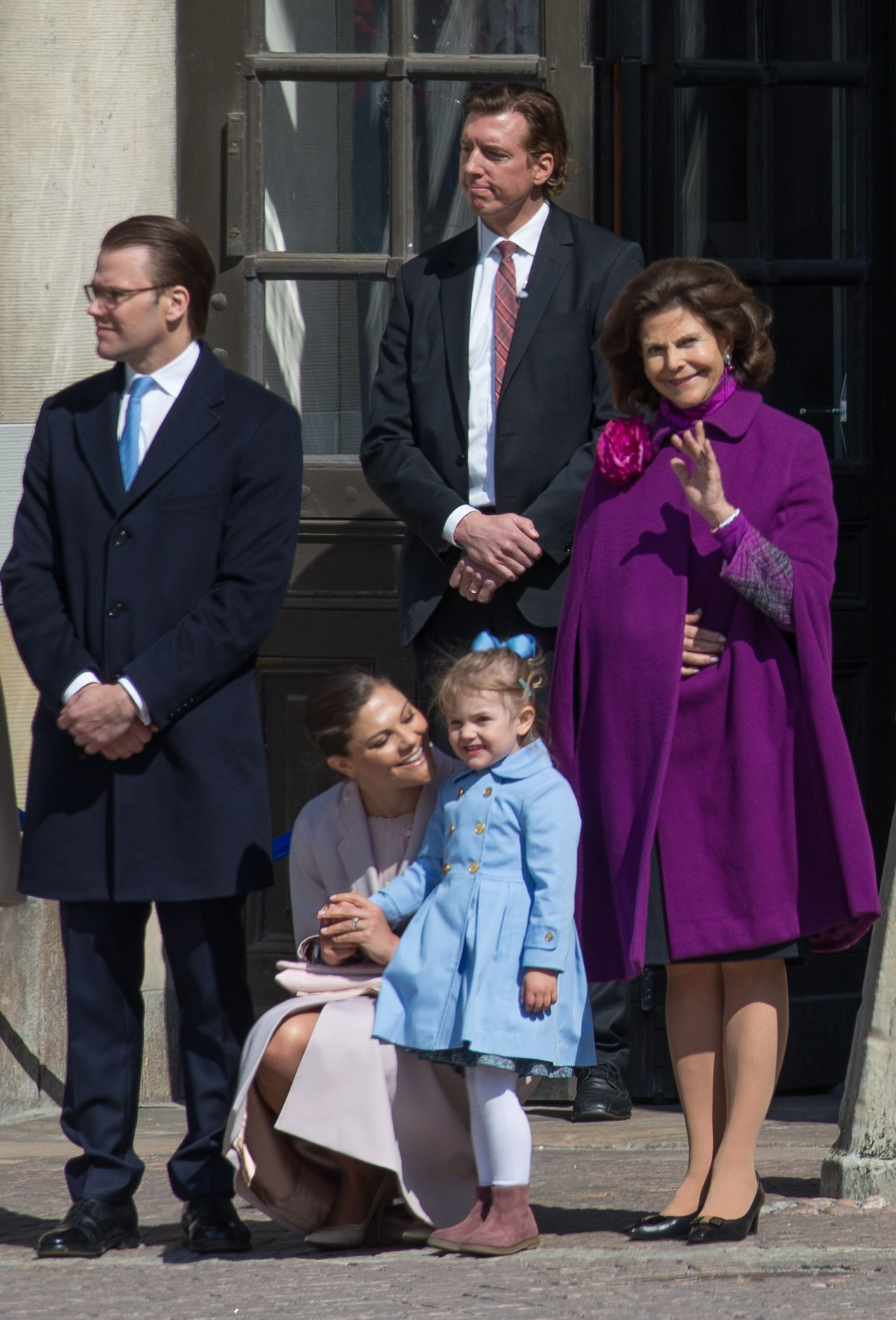 Birthday of Carl XVI Gustaf April 30, 2015.